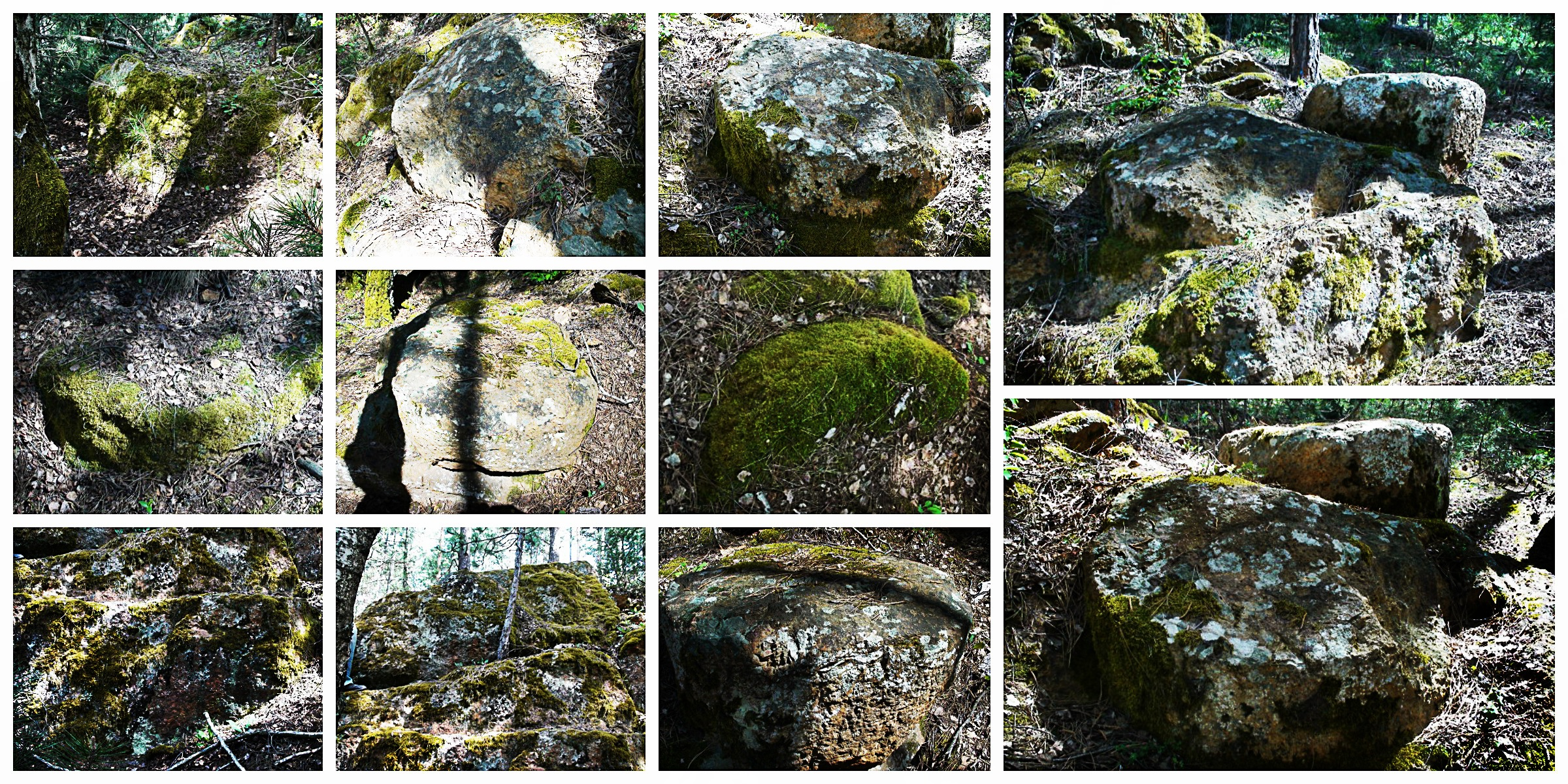 Solar_Sanctuary_Breznishko_burdo_BG